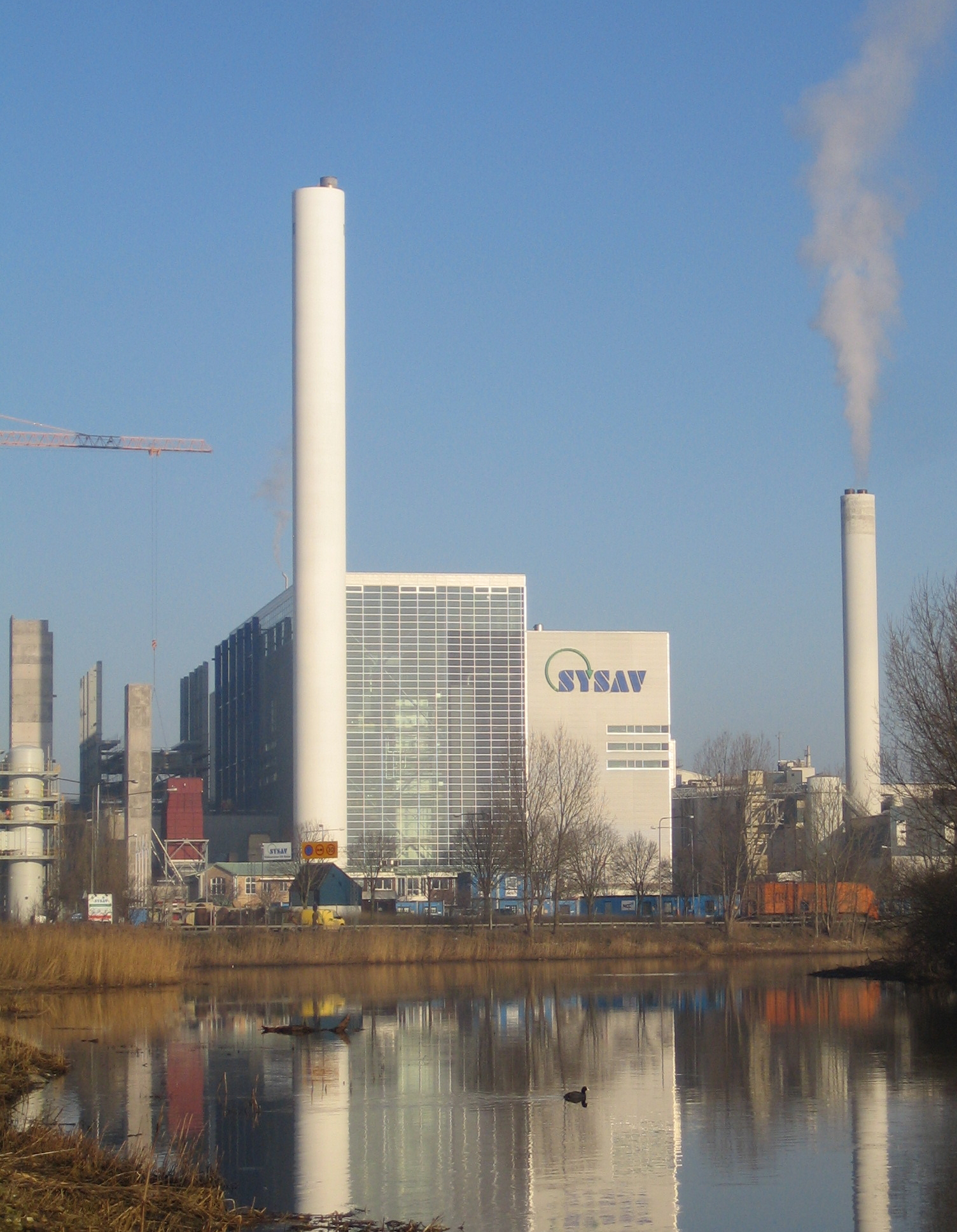 The rubbish incineration plant at Spillepengen, Malmö, Sweden